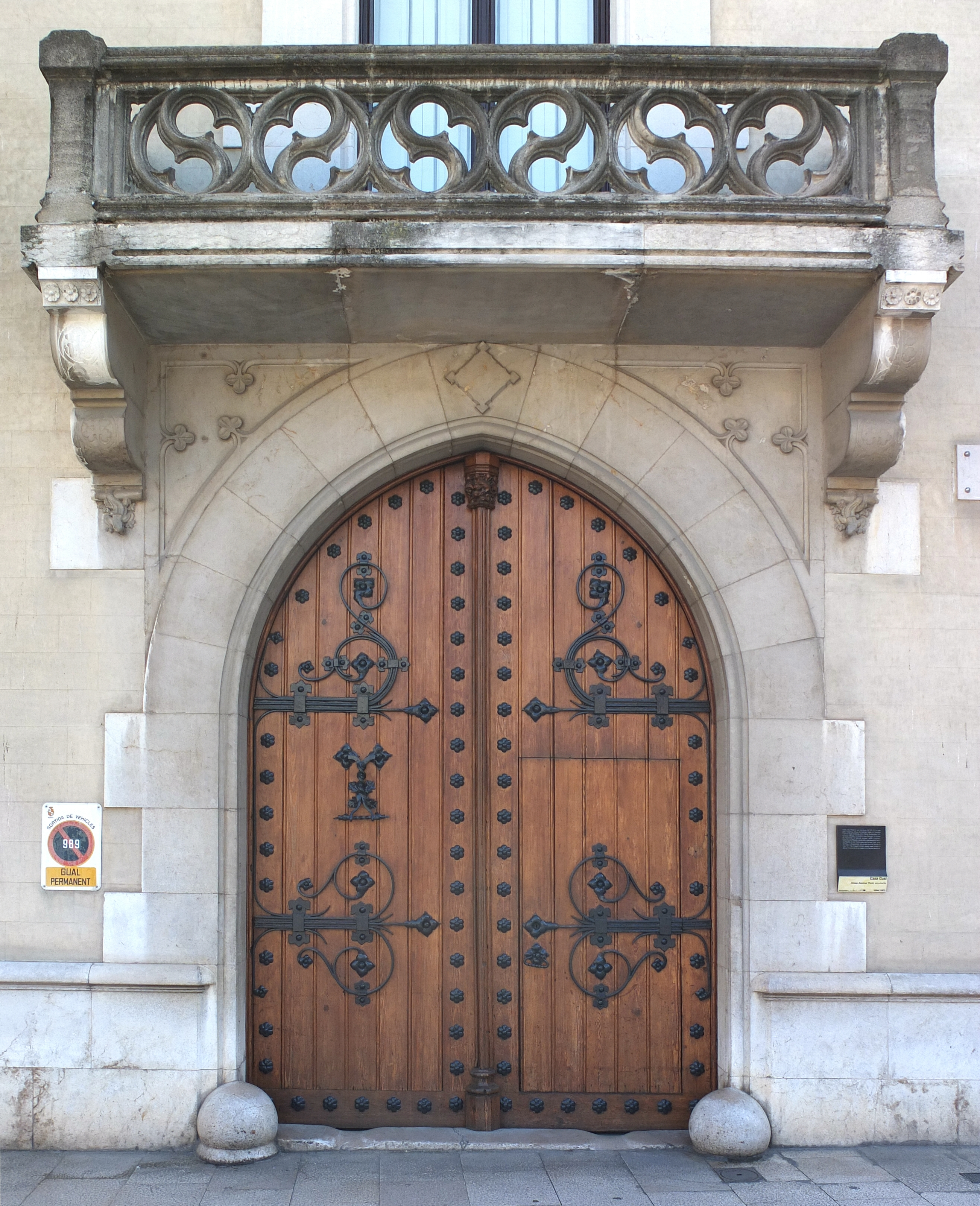 Portal of Casa Cusí in Rambla, 20, Figueres, Spain.